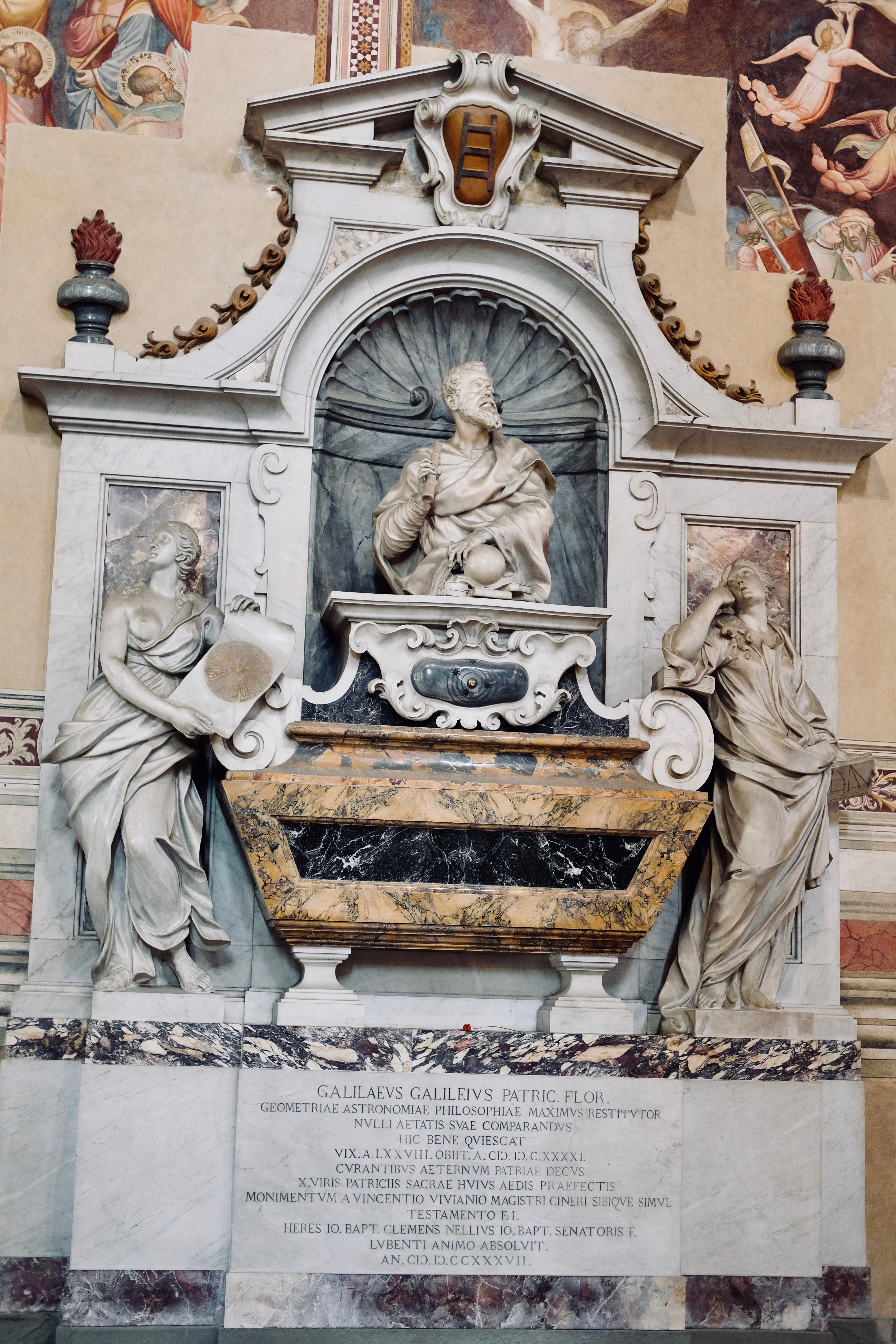 The tomb of Galileo, in the church of Santa Croce, Florence, Italy.